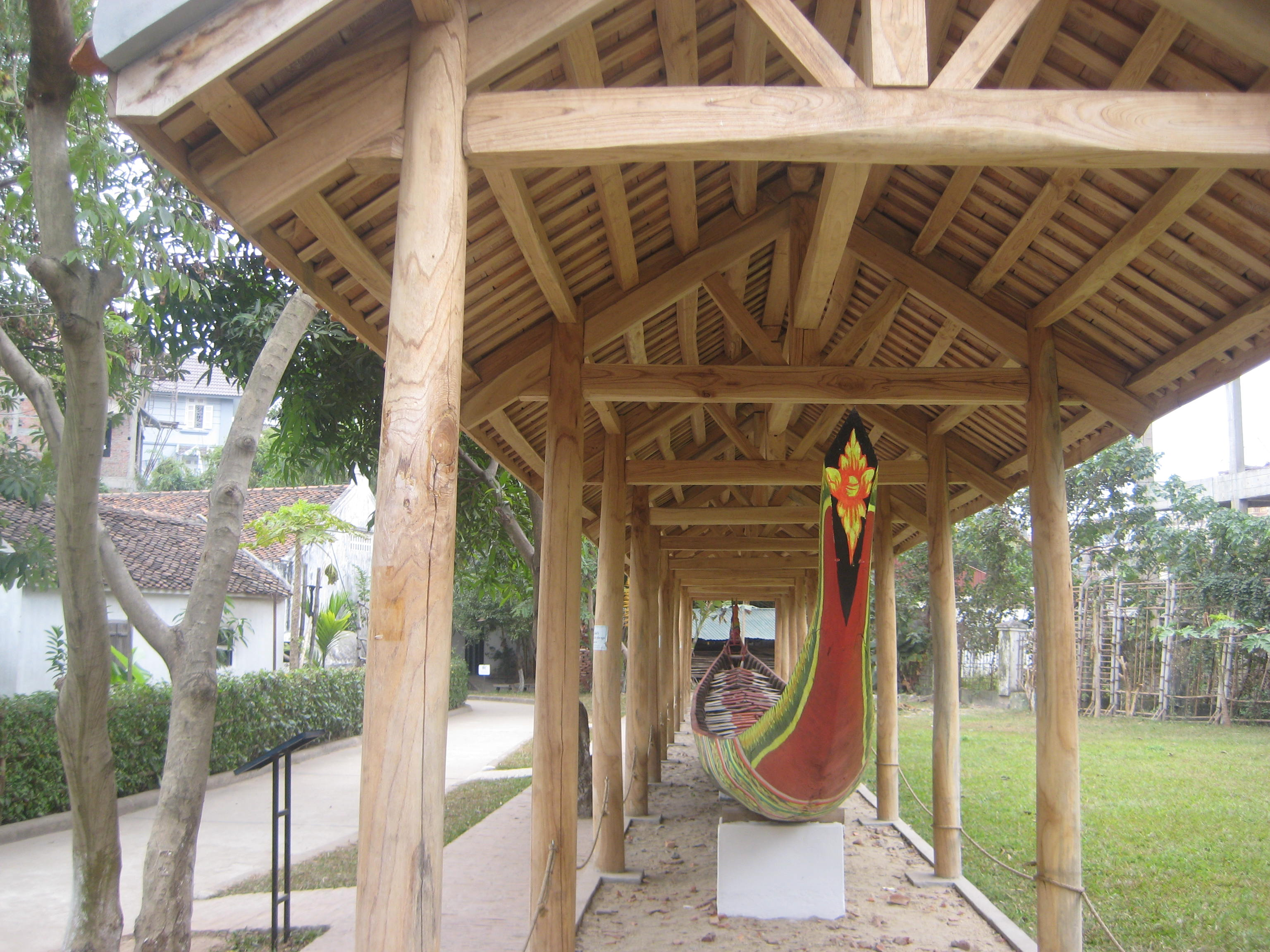 Ngo junk of Khmer people, Vietnam